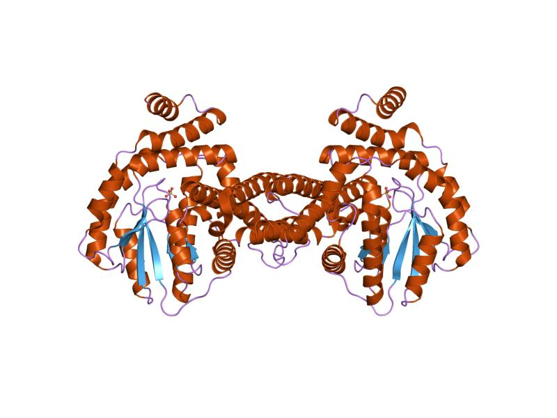 Cartoon representation of the molecular structure of protein registered with 1gvn code.